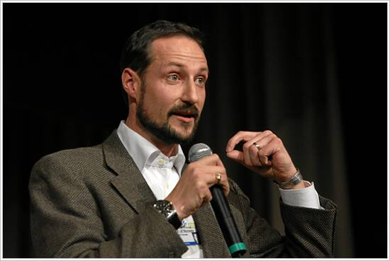 DAVOS-KLOSTERS/SWITZERLAND, 30JAN09 - HRH Crown Prince Haakon of Norway, Founder and Chairman of Operation Hope John Hope Bryant speaks to the students during a special 'Dignity Day' session at the Swiss Alpine School at the Annual Meeting 2009 of the World Economic Forum in Davos, Switzerland, January 30, 2009